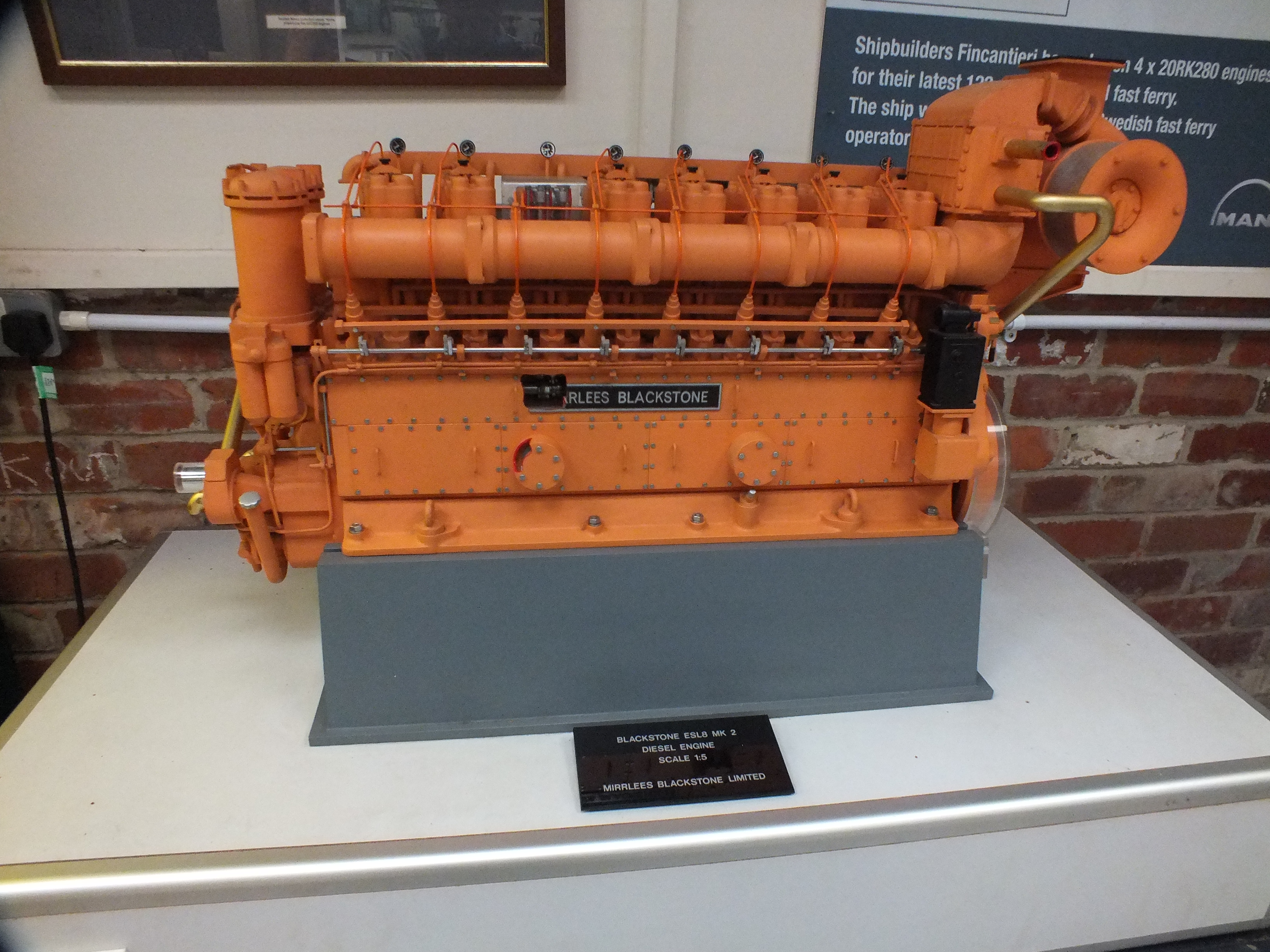 The Anson Engine Museum in Poynton, Cheshire collection.